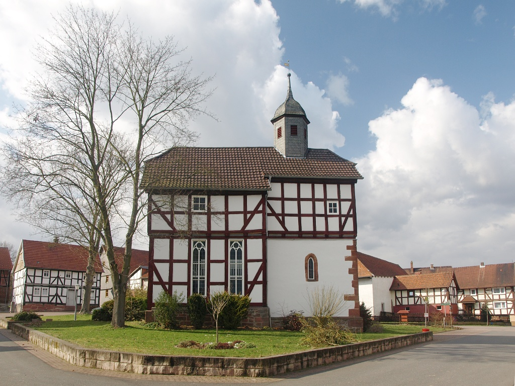 Church in Hauneck-Oberhaun